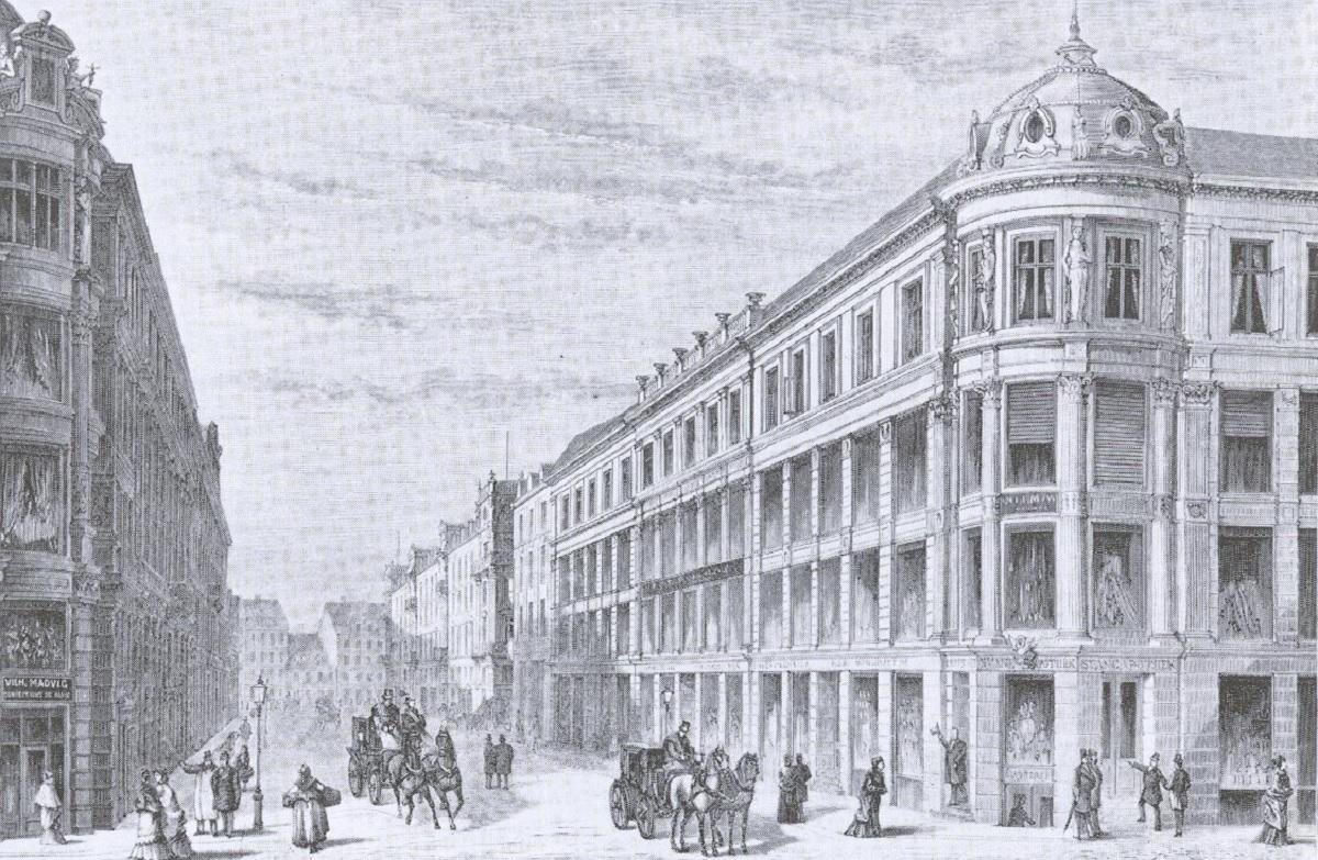 Ny Østergade in Copenhagen, Denmark. Illustration from Illustreret Tidende.